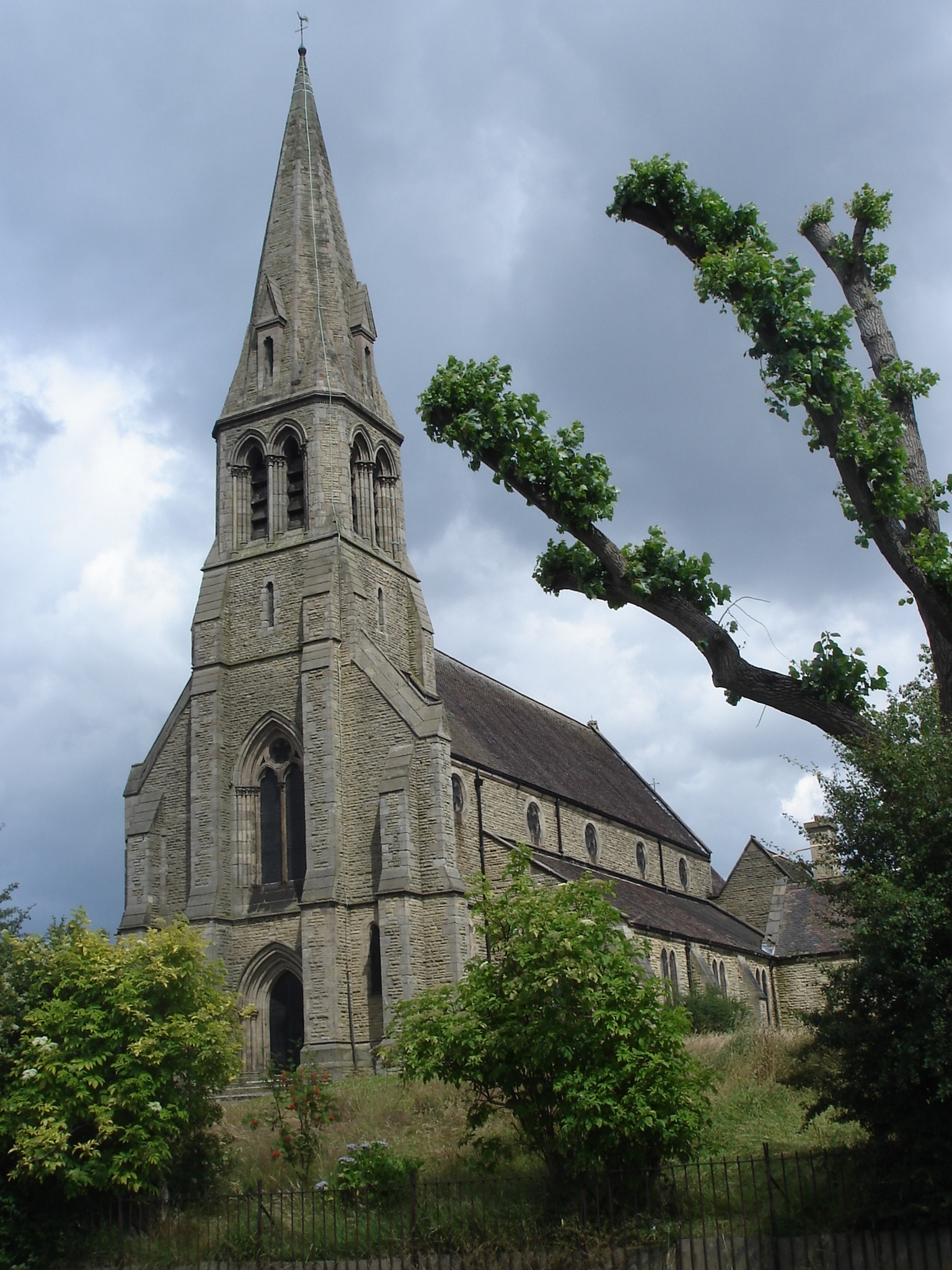 St Luke's parish church, Liverpool Street, Salford, Greater Manchester, seen from the west